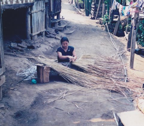 Working woman in Thailand border of Birma.